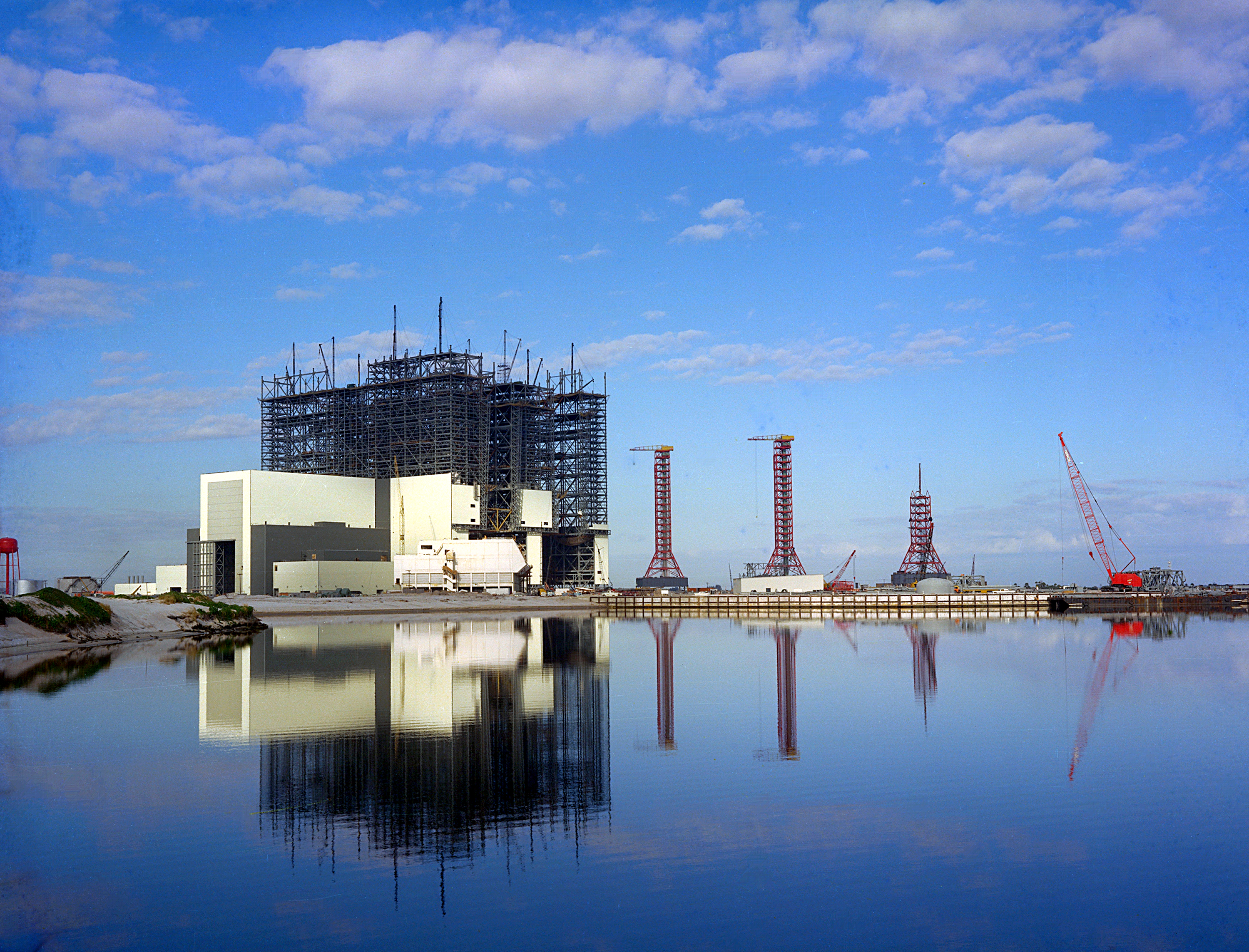 Complex 39 reflection shot of the Vehicle Assembly Building (VAB) under construction with the Launch Control Center (LCC) and Service Towers as seen from across the Turning Basin.